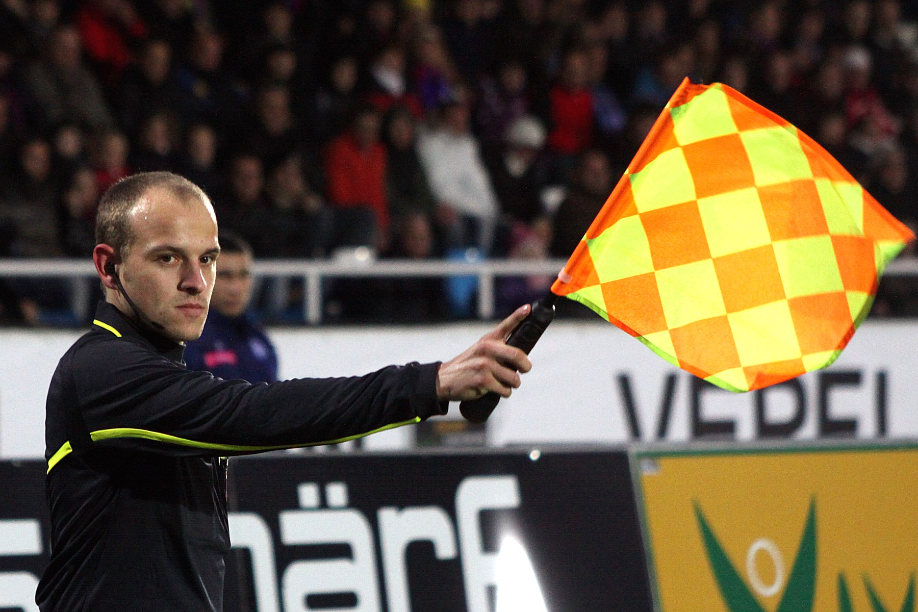 Clemens Schüttengruber, Referee of Austria; here as assistant referee, showing an offside